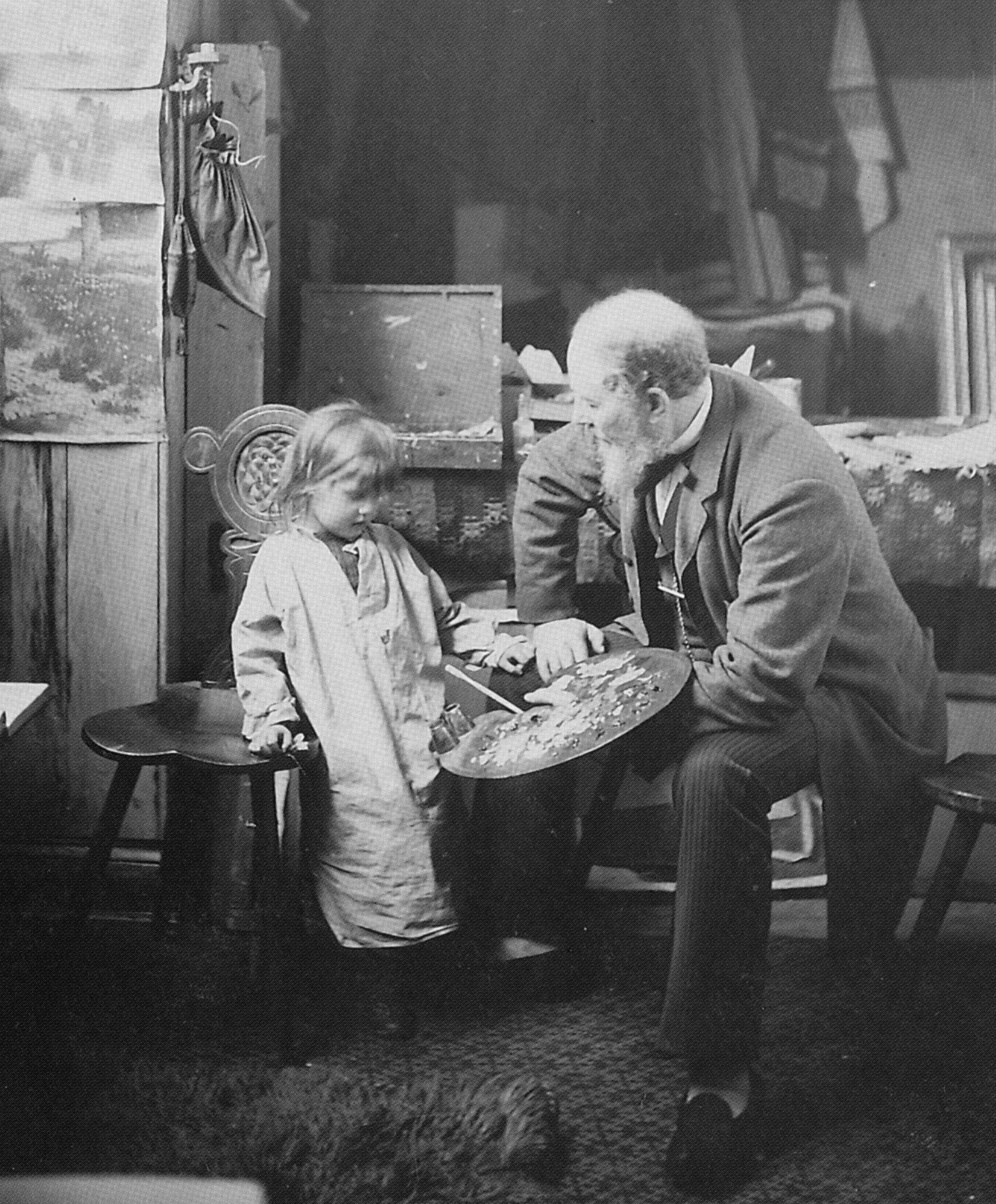 Photo of Swedish painter August Malmström and one of his models